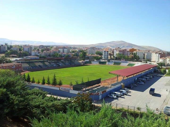 Ahi Stadium in Kırşehir. Created in 2013.